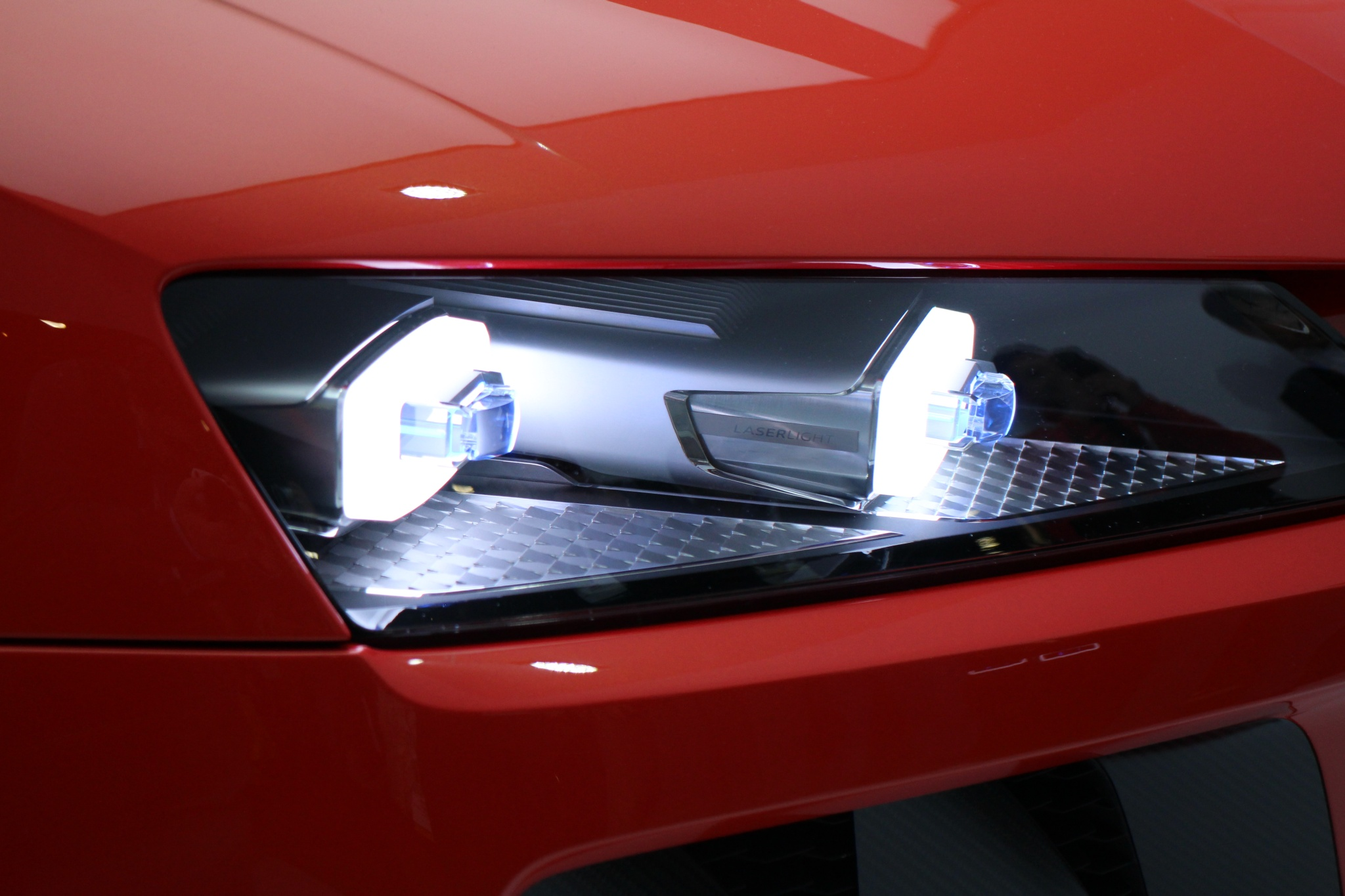 Virtual Cockpit of the new Audi TT, MMI Touch, conceptual Laserlights, zFAS Sensor Motherboard in early alpha and beta status, the Audi CEO Rupert Stadler and his head of electronics development Ricky Hudi